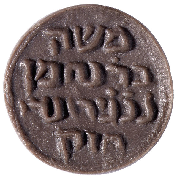 חותמת מיוחסת לרמב"ן